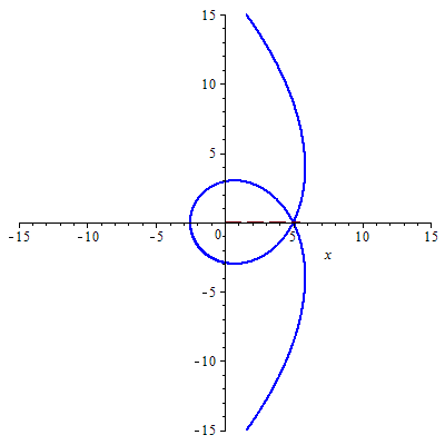 Example of generalized conic in the sense in which the term was used by Tom M. Apostol and Mamikon A. Mnatsakanian in their study of curves drawn on the surfaces of right circular cones. Parameter values: r_0=5, lambda=1.0, k=0.5